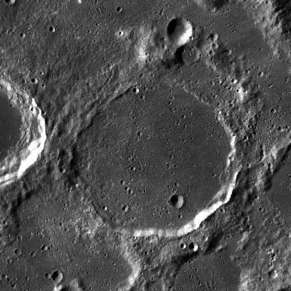 LROC . Lamb lies at north-east Mare Australe; dark-floored Jenner is seen at left margin.